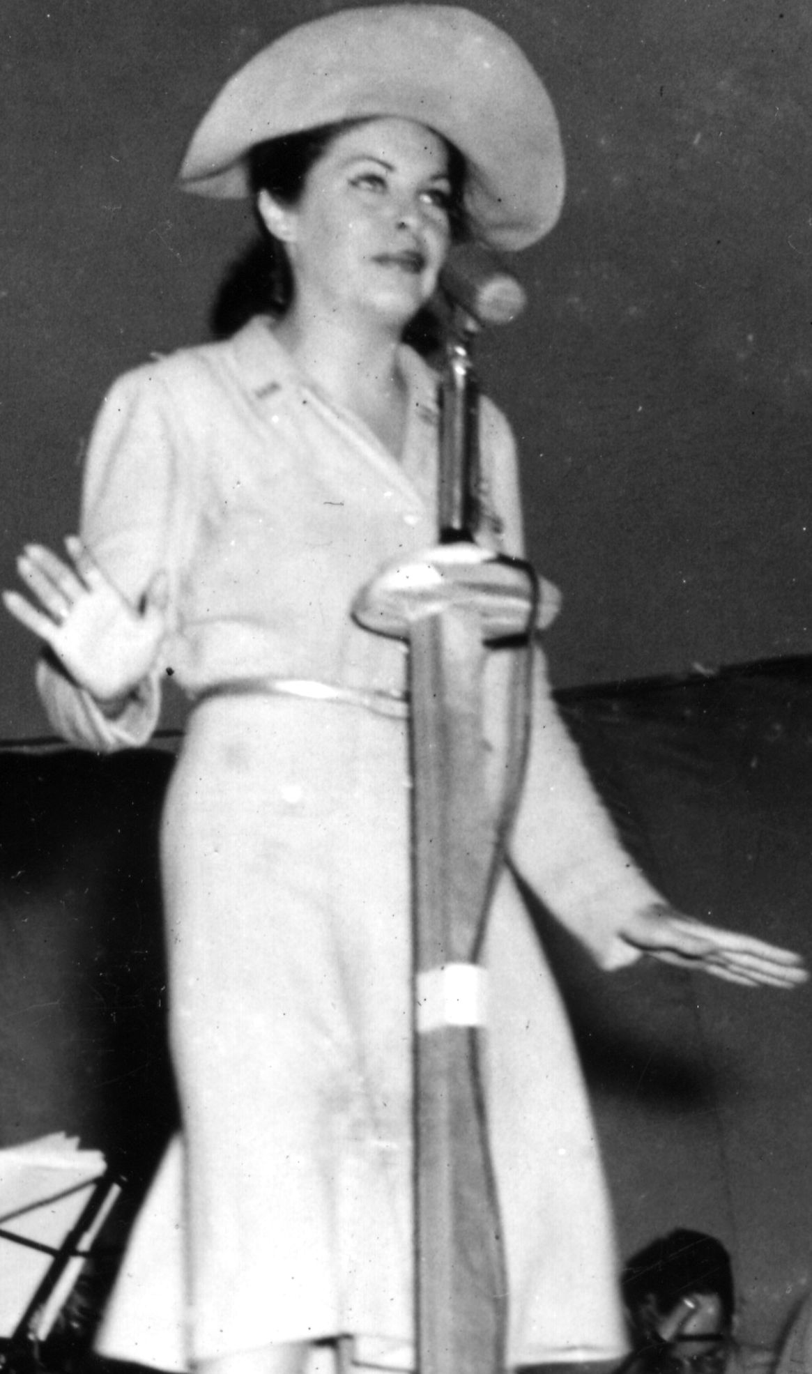 Martha Raye entertaining troops. Probably Accra, Ghana, North Africa